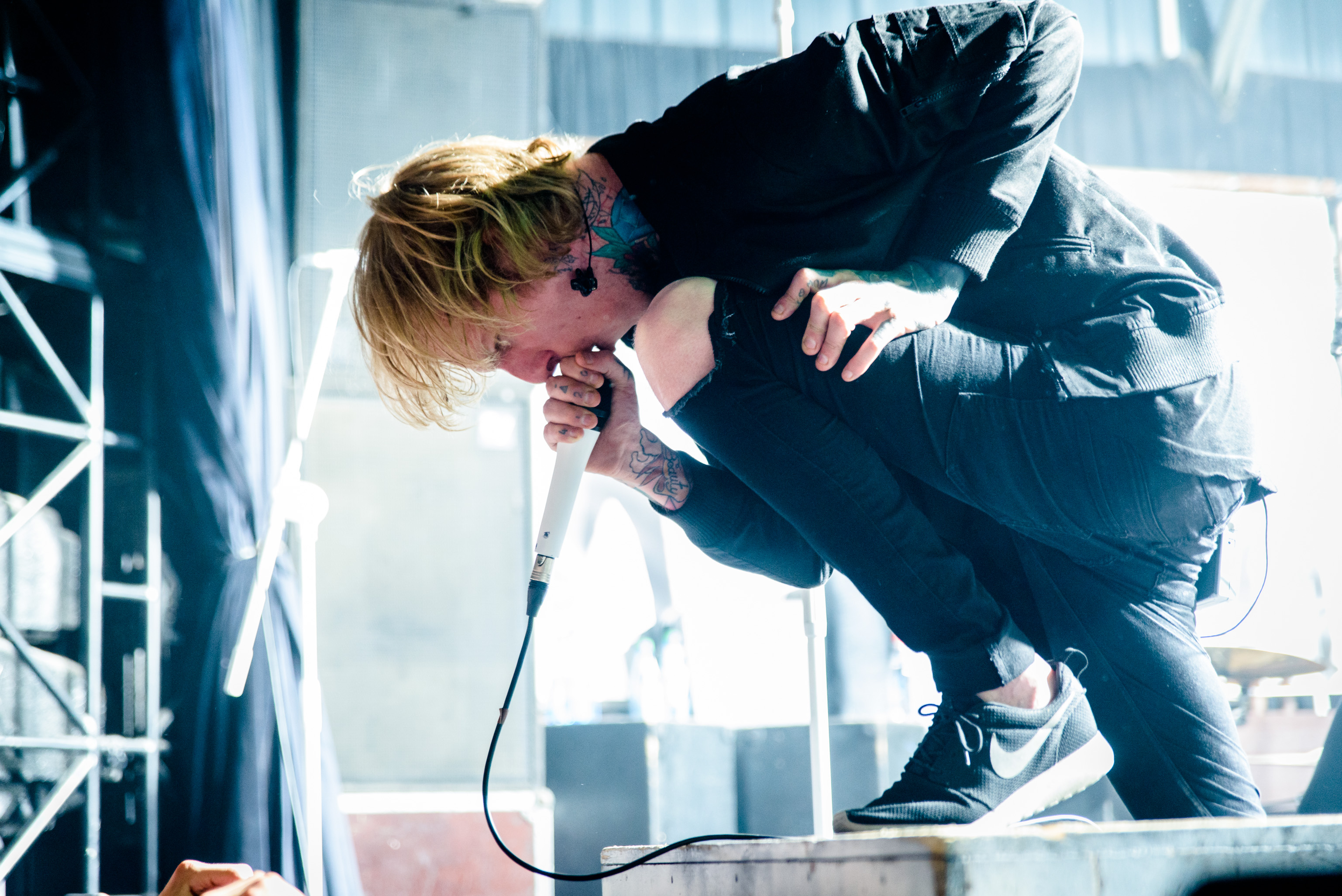 Vitja Live @ Free & Easy Festival 2015